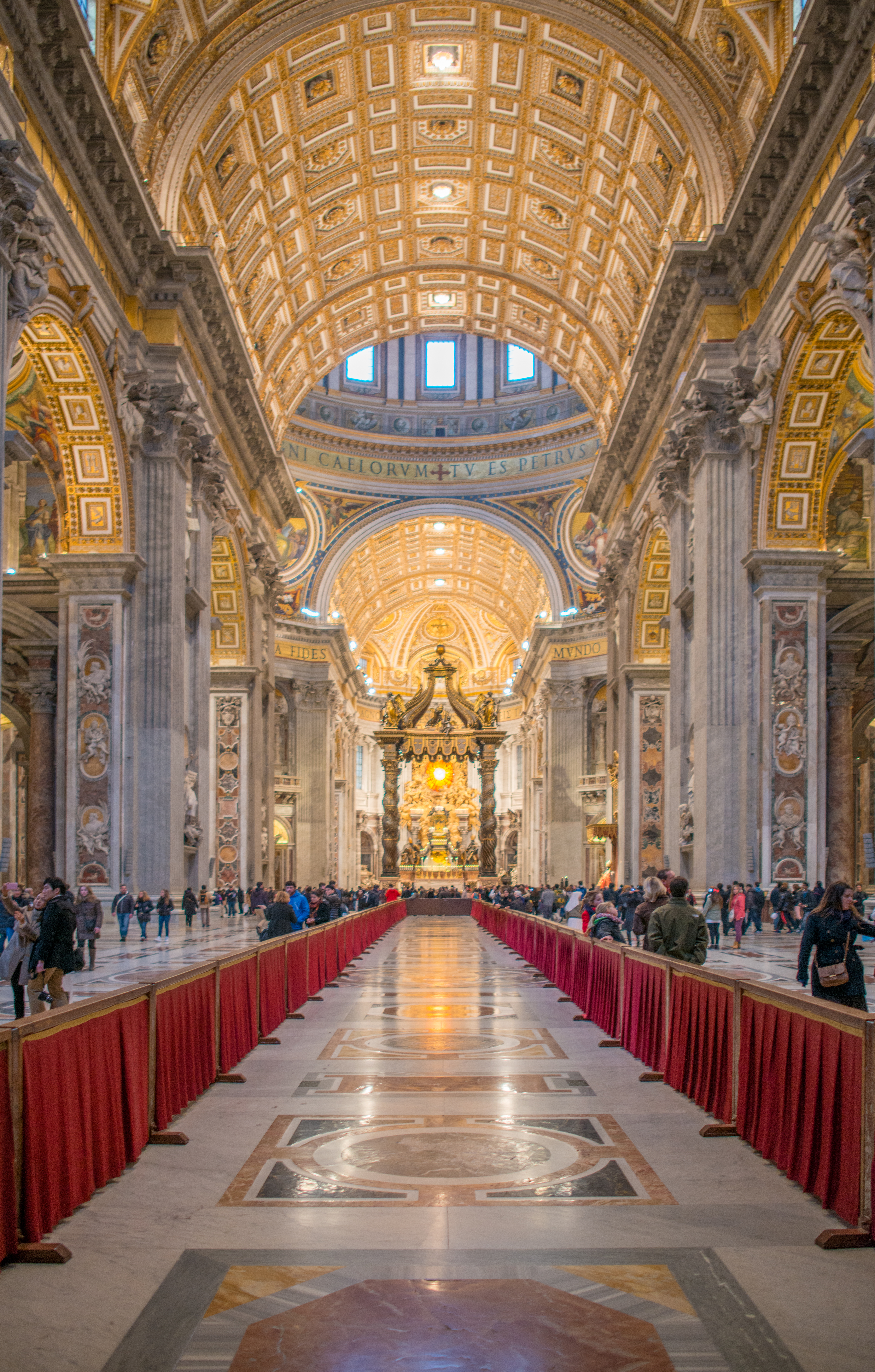 The Vatican Rome Italy February 2013